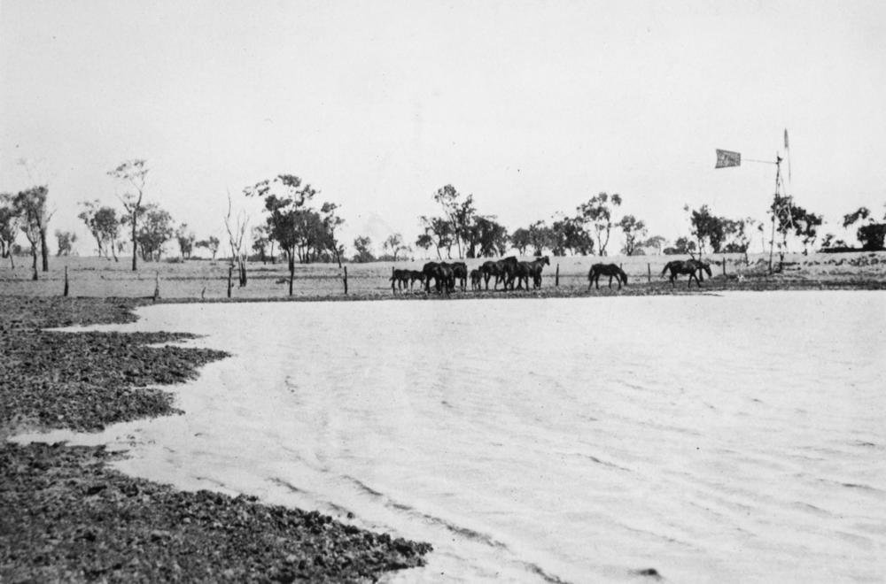 Thoroughbred horses on Bexley Station, western Queensland, ca. 1913 Horses next to the Bexley Station dam.